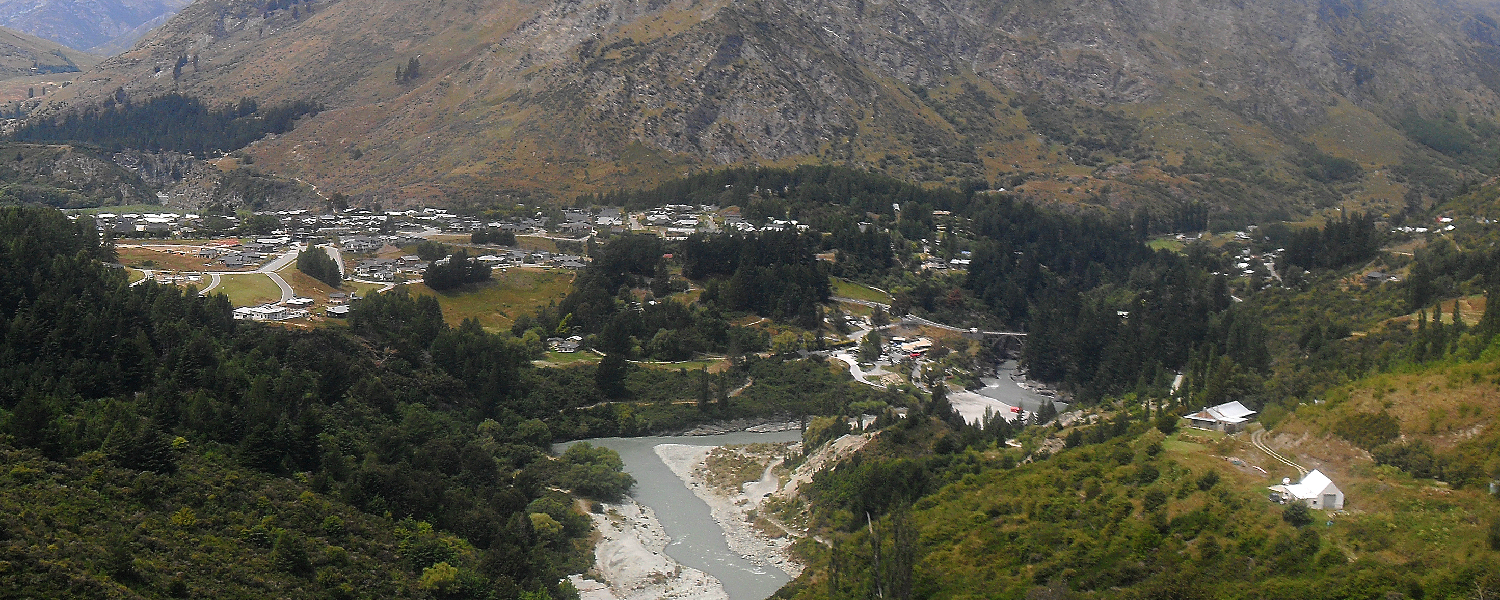 Arthurs Point from Moonlight Track. Includes Queenstown Hill and Shotover River.